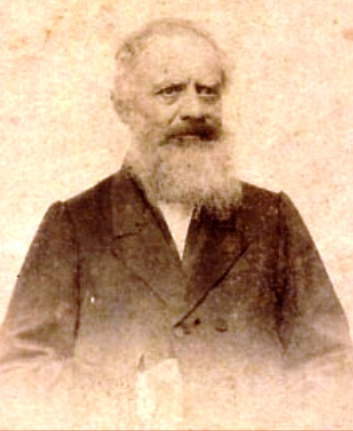 Jose Rufino Echenique